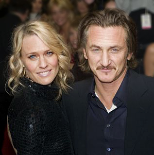 Sean and Robin Wright Penn, All the King's Men Premiere